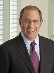 Photo of Dr. John I. Gallin, longest-serving director of NIH Clinical Center from 1994 to 2017. Incumbent associate director for clinical research at NIH and chief scientific officer of the NIH Clinical Center.